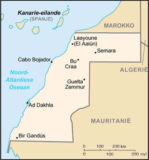 An Afrikaans map of the Western Sahara.